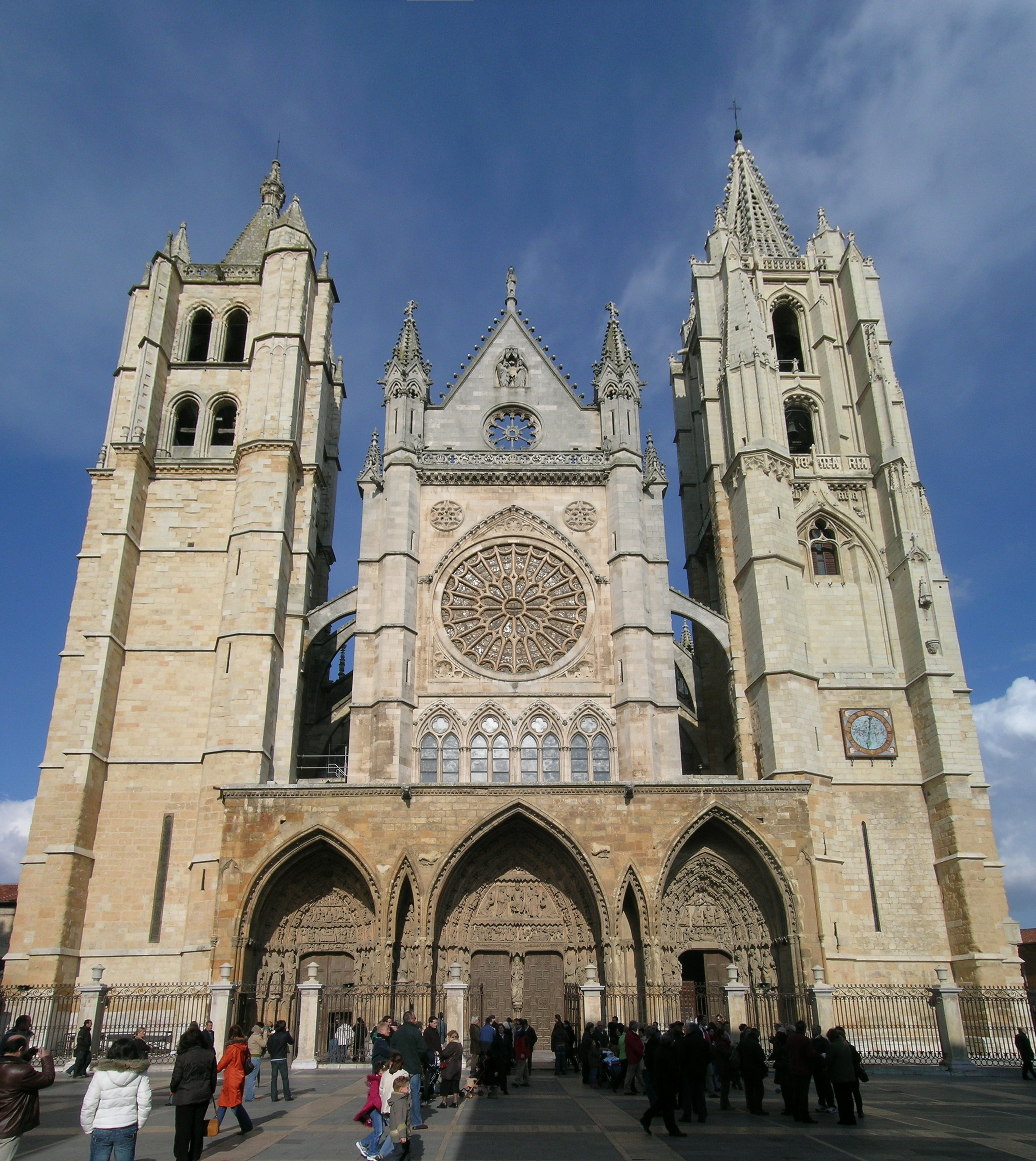 façade of the cathedral of Leon, Spain. I created it taking three different pictures and stitching them together using autopano, hugin and enblend. Post-processed with Gimp.